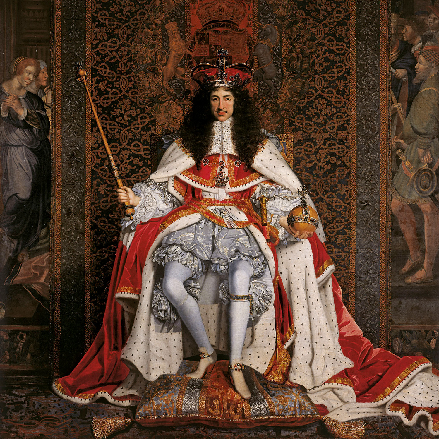 This image is a JPEG version of the original PNG image at File: Charles II of England.png. Generally, this JPEG version should be used when displaying the file from Commons, in order to reduce the file size of thumbnail images. However, any edits to the image should be based on the original PNG version in order to prevent generation loss, and both versions should be updated. Do not make edits based on this version. See here for more information. See [1].